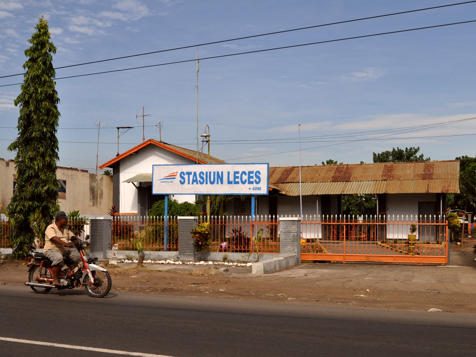 Leces train station in Probolinggo Regency, East Java, Indonesia.